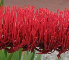 Photograph of the flower of Xeronema callistemon. Photo taken by myself